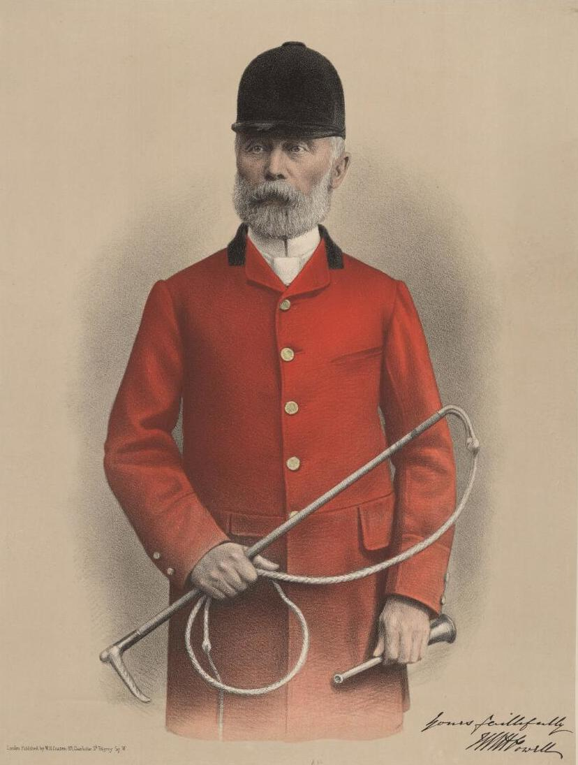 A portrait from the Welsh Portrait Collection at the National Library of Wales. Depicted person: W. R. H. Powell – British politician